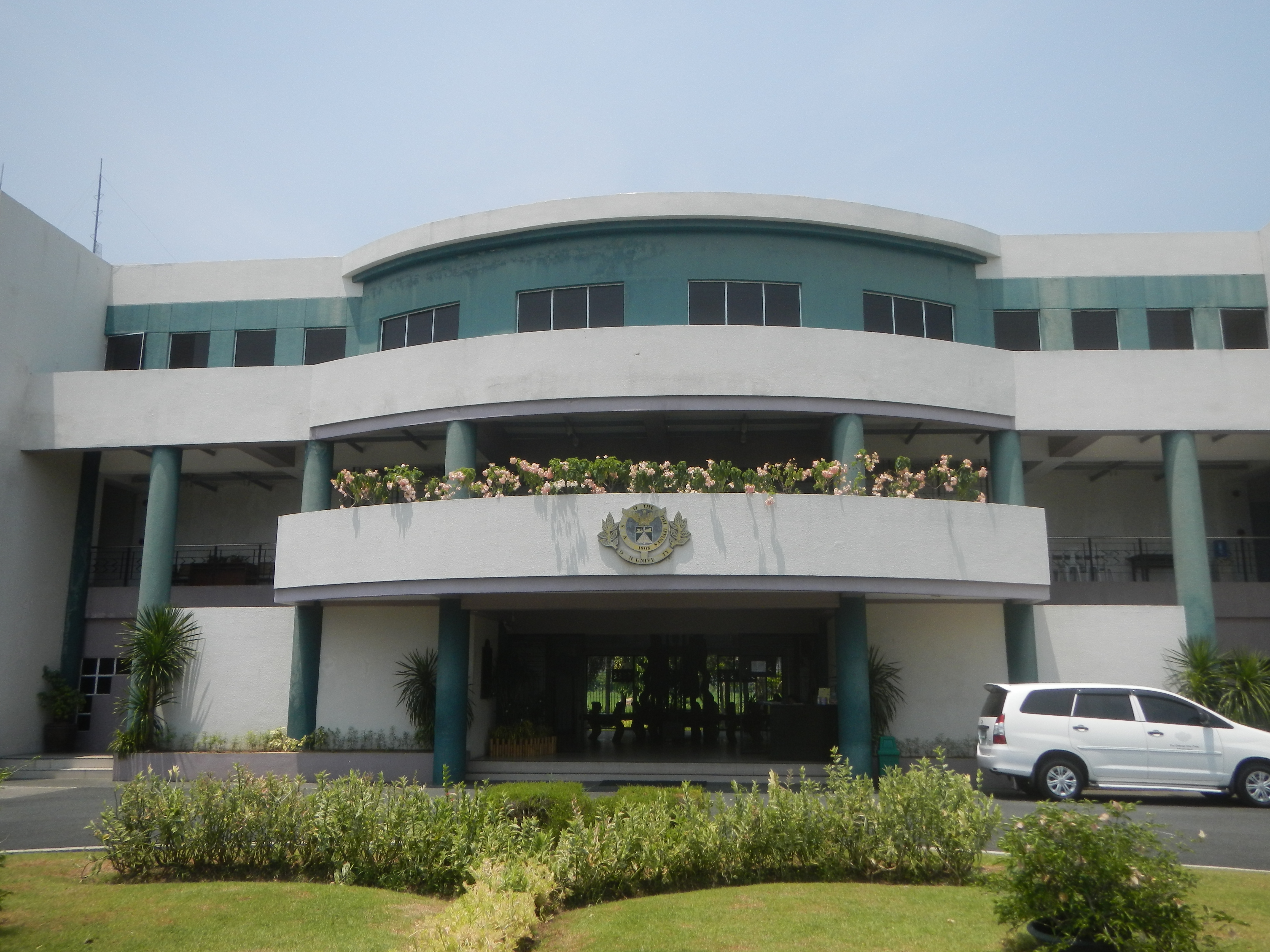 International Rice Research Institute International Rice Research Institute - Los Baños University of the Philippines Open University Los Baños University of the Philippines – Open University Los Baños Los Baños National Highway List of barangays in Laguna (province) Barangay Maahas, Los Baños, Laguna 14°10'23"N 121°15'21"E Los Baños, Laguna Calamba–Pagsanjan Road from Manila East Road Philippine highway network (Note: Judge Florentino Floro, the owner, to repeat, Donor Florentino Floro of all these photos hereby donate gratuitously, freely and unconditionally Judge Floro all these photos to and for Wikimedia Commons, exclusively, for public use of the public domain, and again without any condition whatsoever).